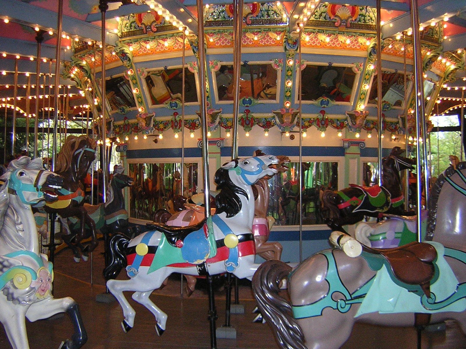 A scene from Kennywood, an amusement park located in West Mifflin, Pennsylvania on the Monongahela River. This is a view of the Grand Carousel